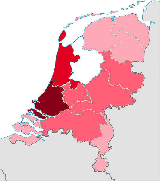 Joblessness in the Netherlands 1934. The colours represent from darkest to lightest: 30% or more, 15-30%, 5-15% and less than 5% respectively. Information source: De Bosatlas van de Tweede Wereldoorlog p. 21.